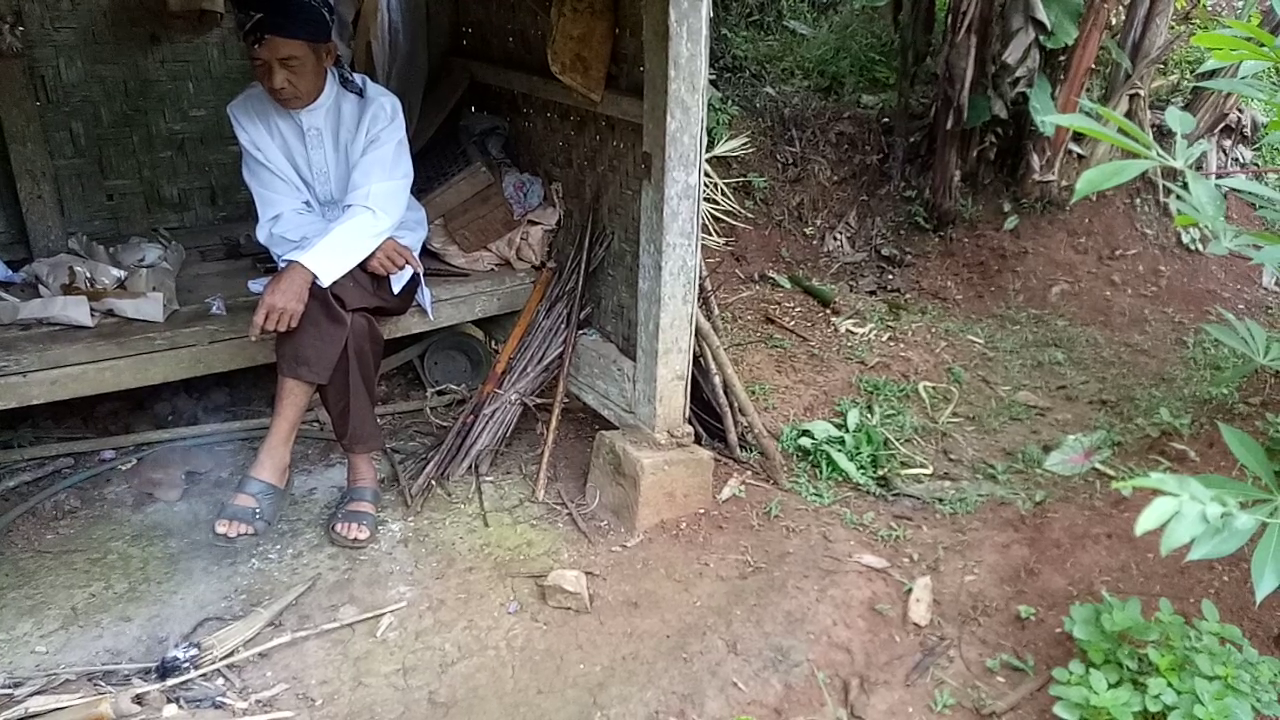 Nyalin